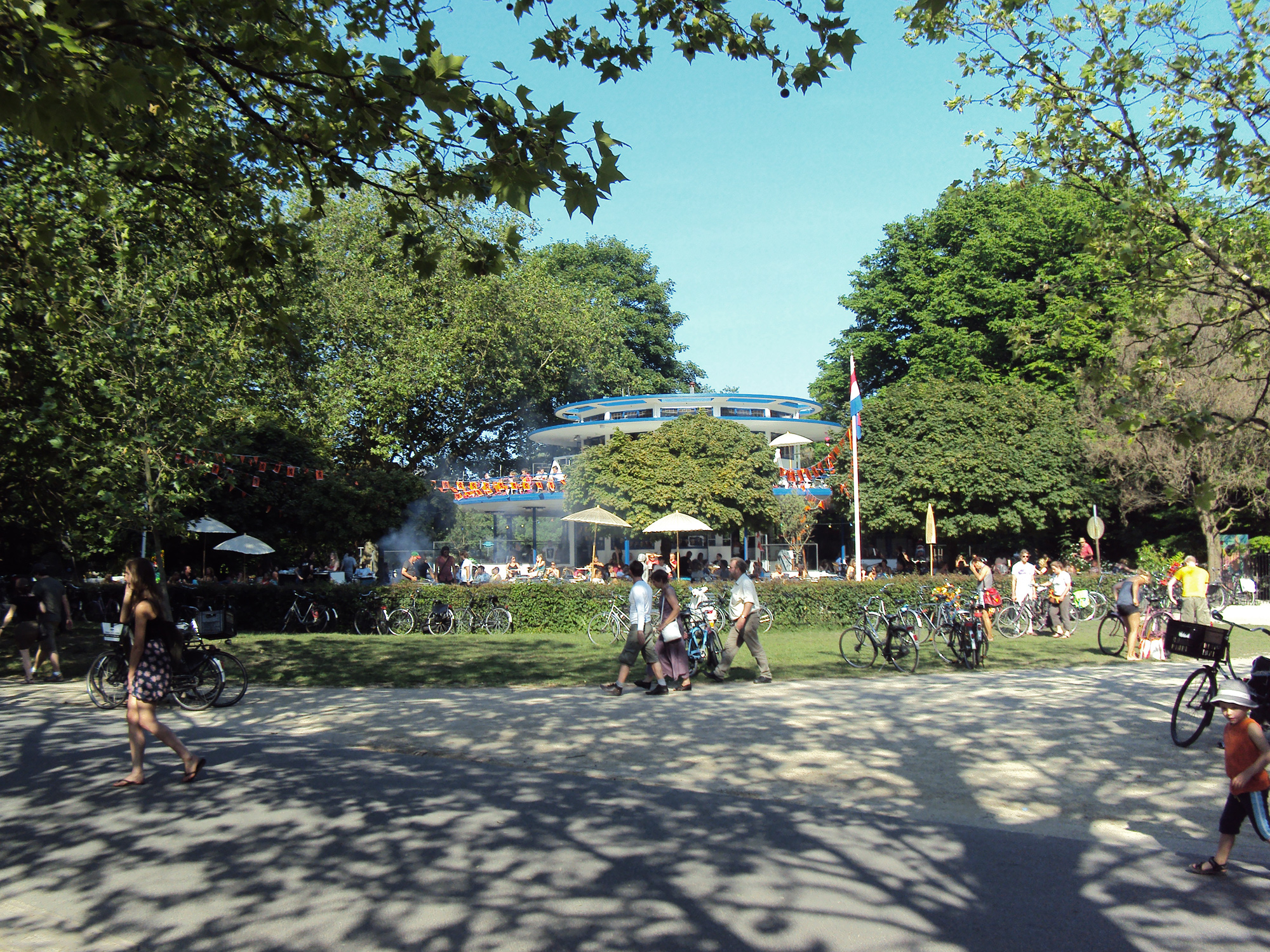 The Blauwe Theehuis ("Blue Tea House"), a 1937 Modernist pavilion in the Vondelpark in Amsterdam, the Netherlands